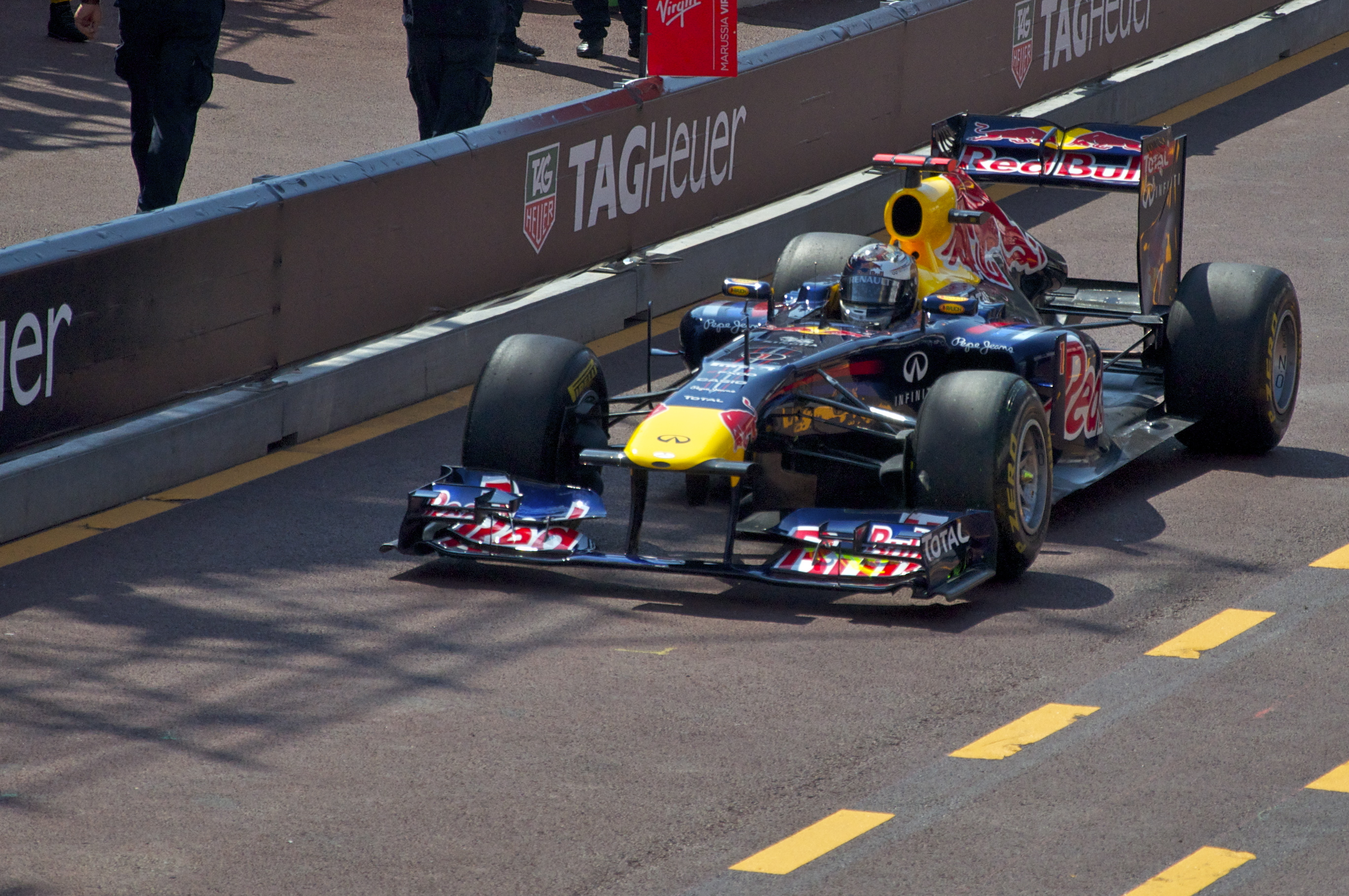 Monaco Grand Prix 2011